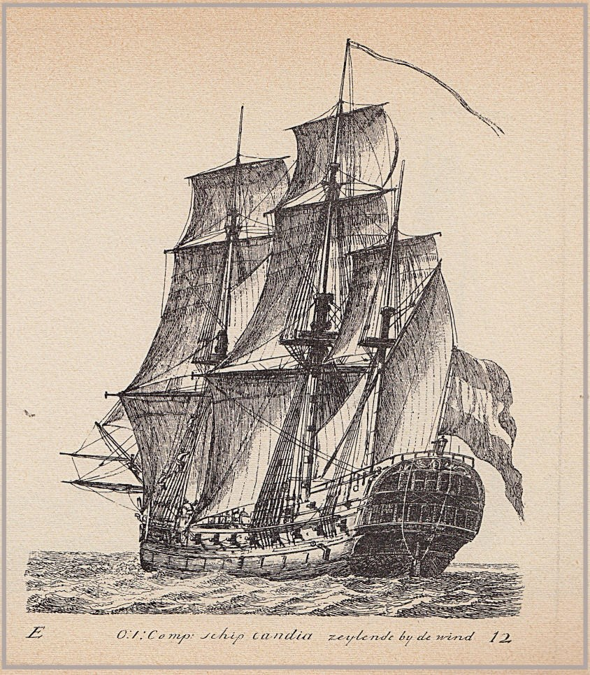 VOC 'Spiegelretourschip' Candia; by G.Groenewegen 1798